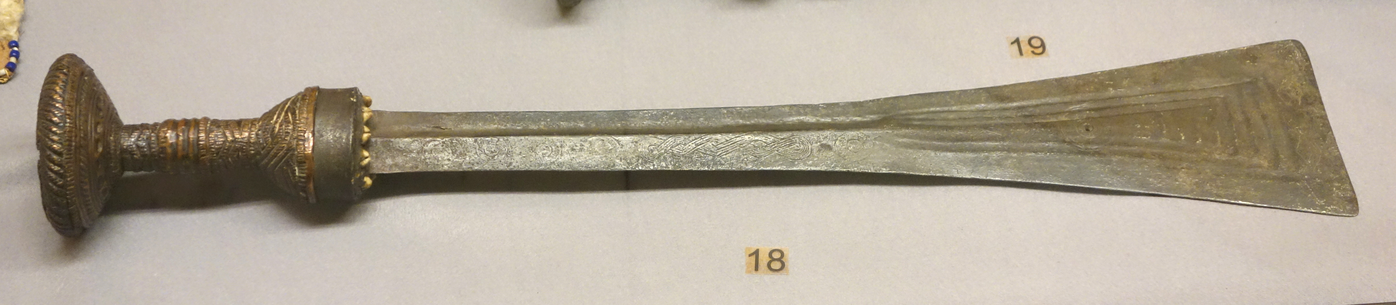 Exhibit in the Royal Museum for Central Africa, Tervuren, Belgium. This object is old enough so that it is in the public domain.